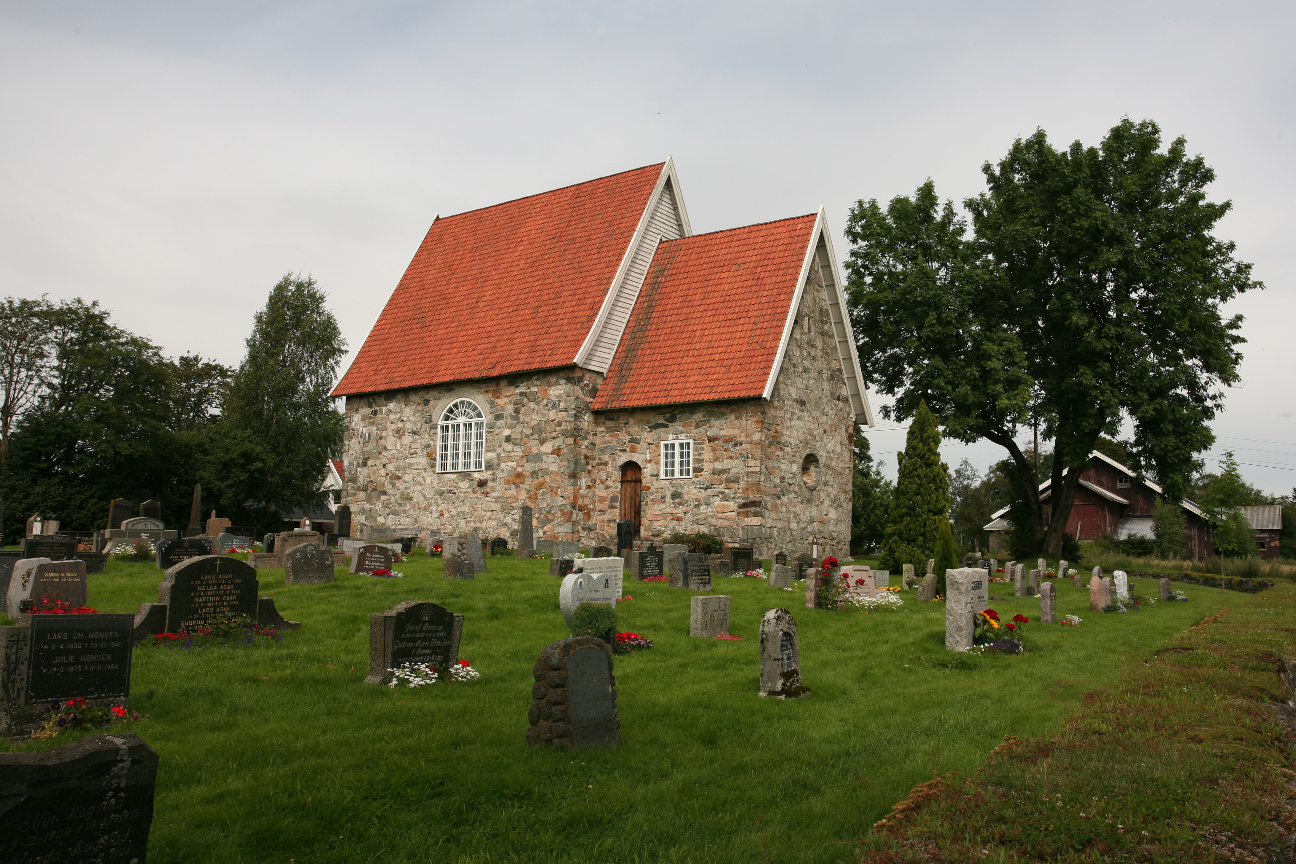 Picture of Frogner gamle kirke (Akershus - Norway)